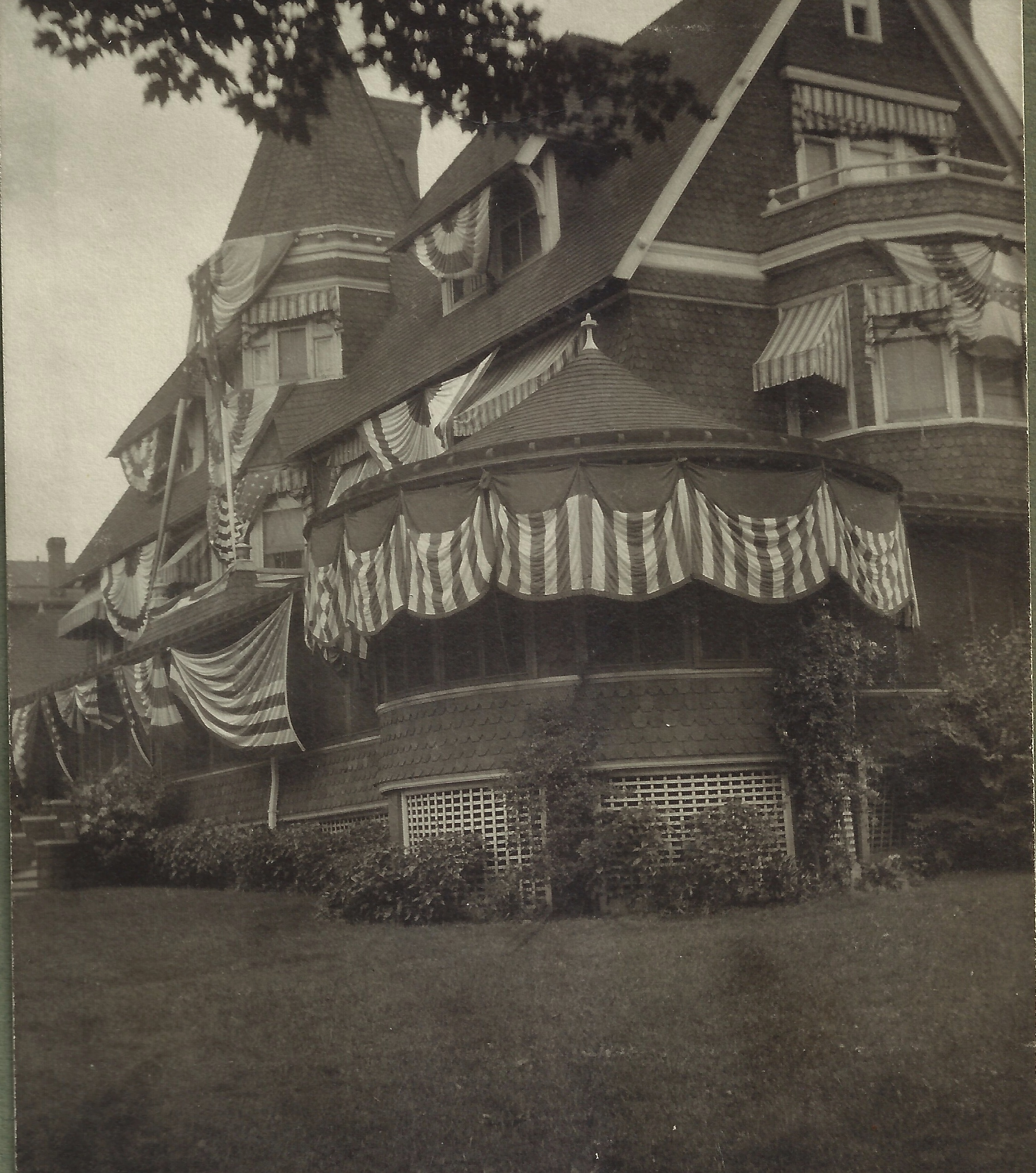 321 Broad Street, Hazleton, PA (1887) with bunting, c. 1920, home of Alvan and Mary Dryfoos Markle 1887-1924; thereafter Elks Headquarters